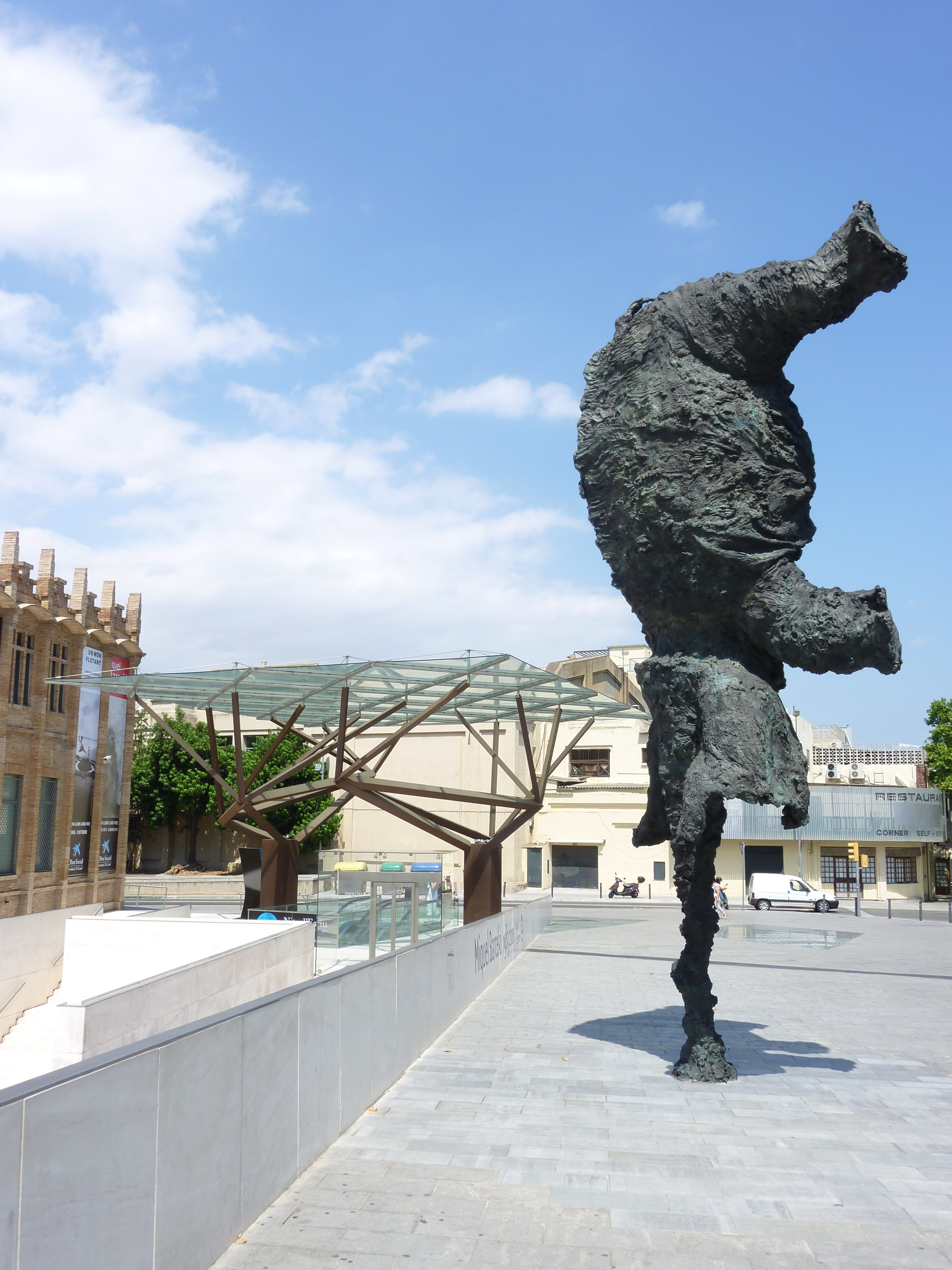 The image shows the "Great elephant standing" (Gran elegant dret) by Miquel Barceló (2009) in second term the tree structure was designed by Arata Isozaki